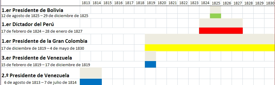 chronogram of Simon Bolivar at charge of the goverments of Bolivia, venezuela, Perú and Gran Colombia